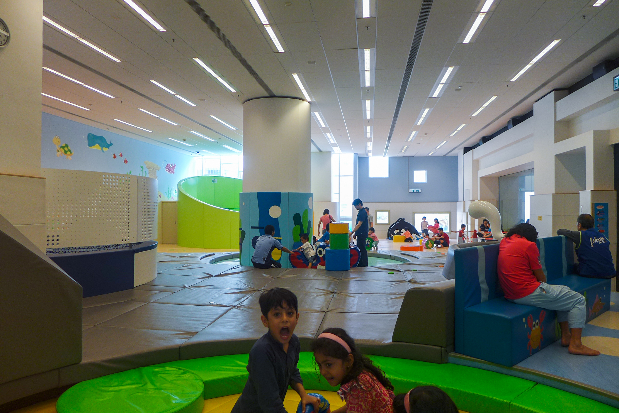 Hang Hau Sports Centre Children Play Room